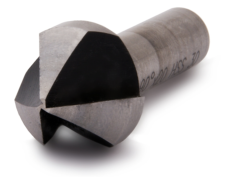 countersink